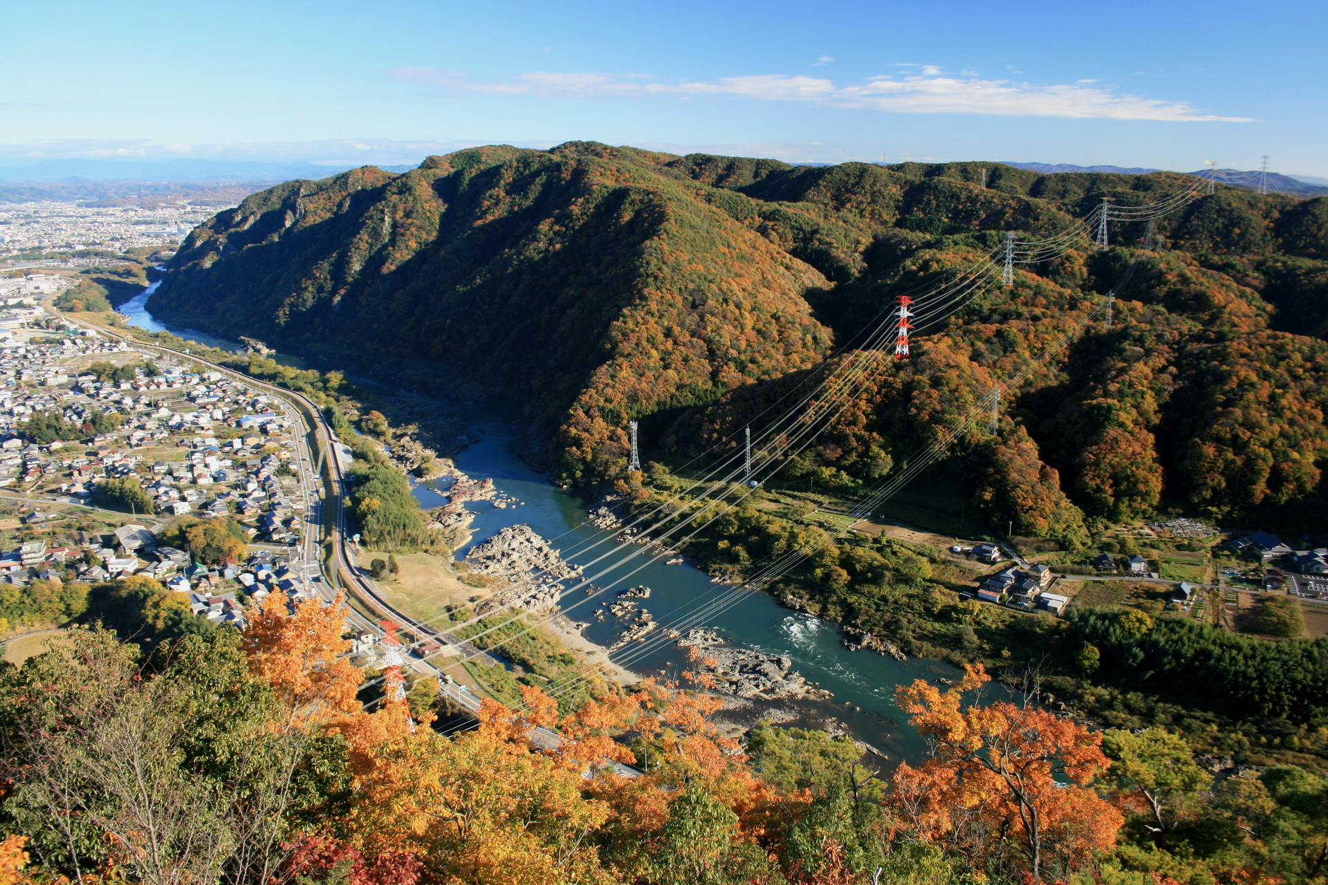 Kiso River(Japan Rhine) and Mount Hatobuki from Sarubami Castle